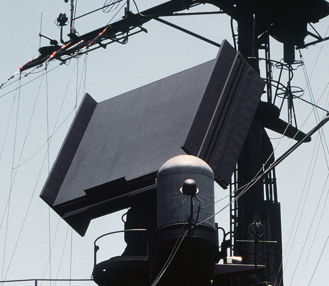 Cropped version focusing on AN/SPS-52 search radar. Original description:A view of the AN/SPG-51C (circular), AN/SPS-52D (large block) and AN/SPS-10F radar aboard the Brooke class guided missile frigate USS RAMSEY (FFG-2). Location: SAN DIEGO, CALIFORNIA (CA) UNITED STATES OF AMERICA (USA)